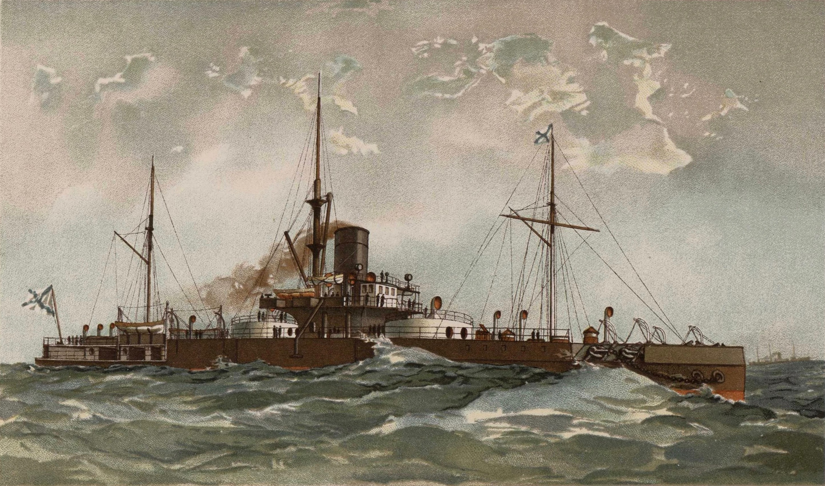 Petr Veliky (ironclad warship)